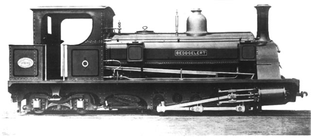 Locomotive Beddgelert for the North Wales Narrow Gauge Railways, Hunslet works photograph